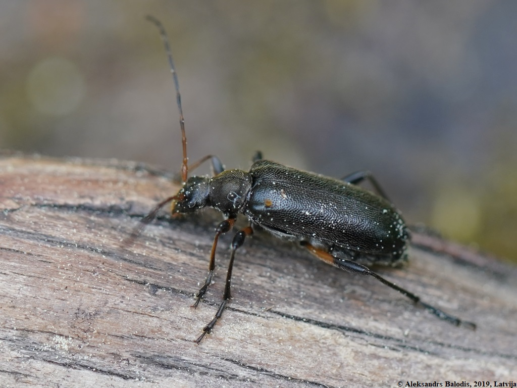 Cortodera femorata